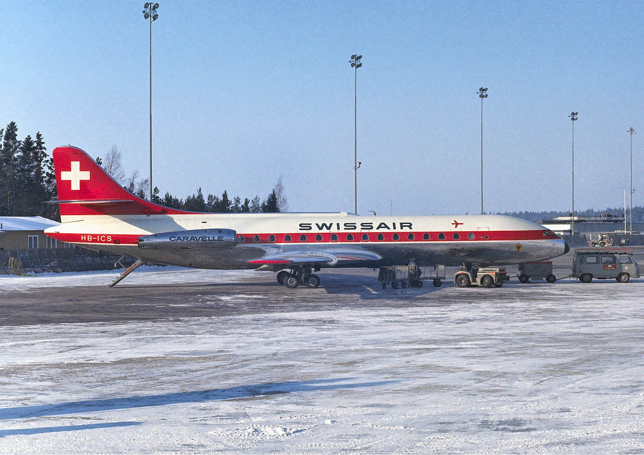 Sud Aviation SE-210 Caravelle III aricraft (HB-ICS) at Stockholm-Arlanda Airport in February 1966.